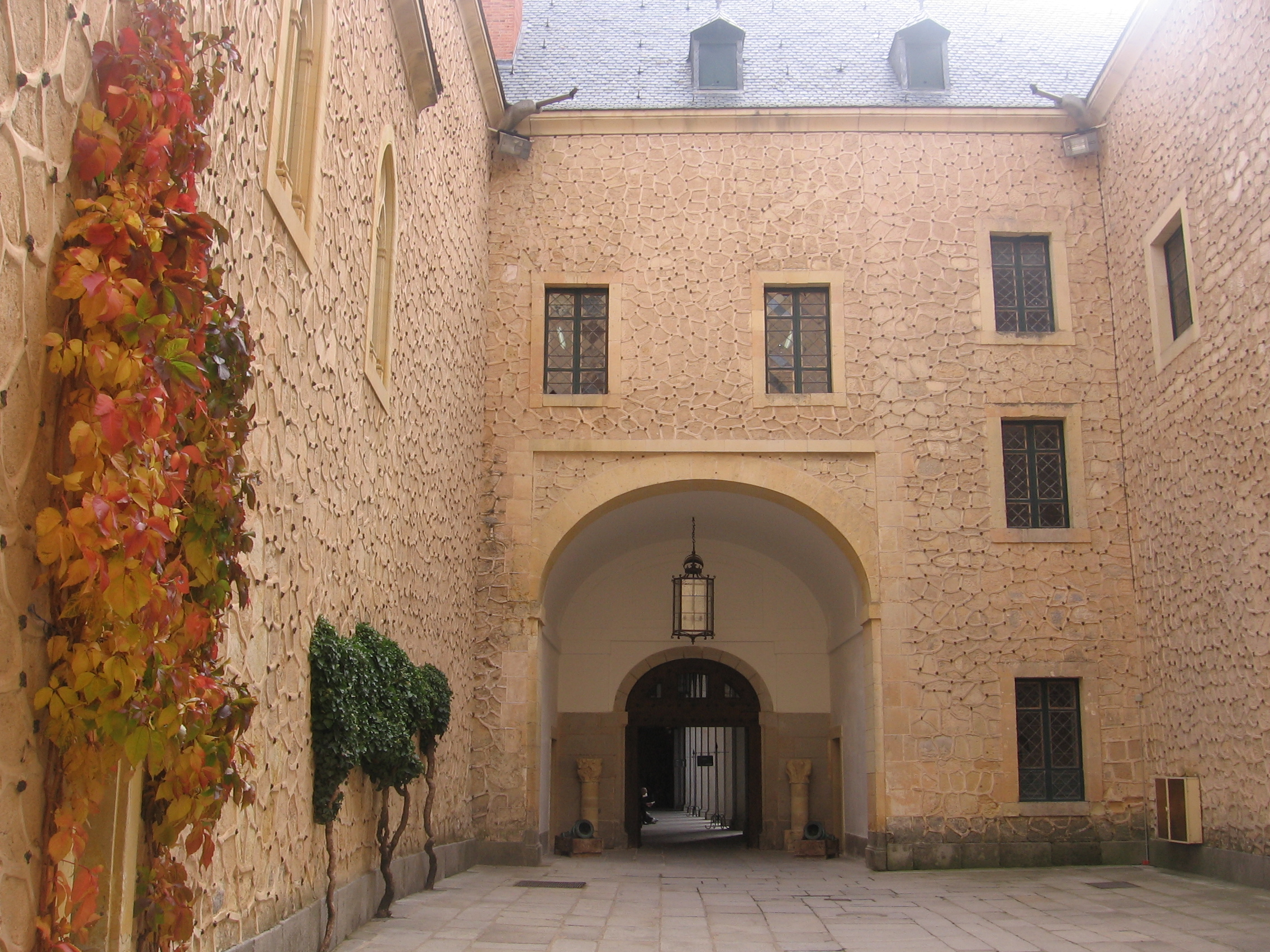 Alcazar of Segovia clock patio.